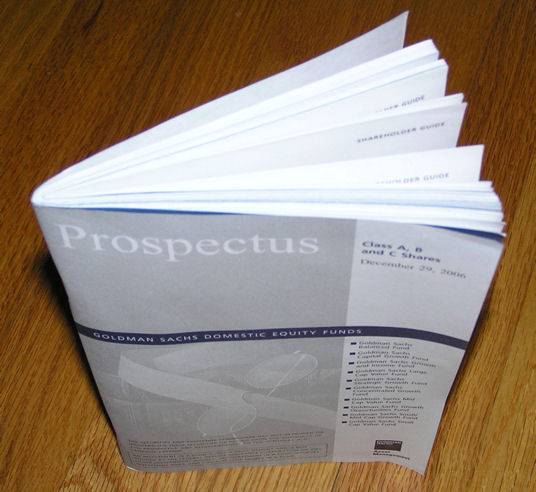 Prospectus booklet